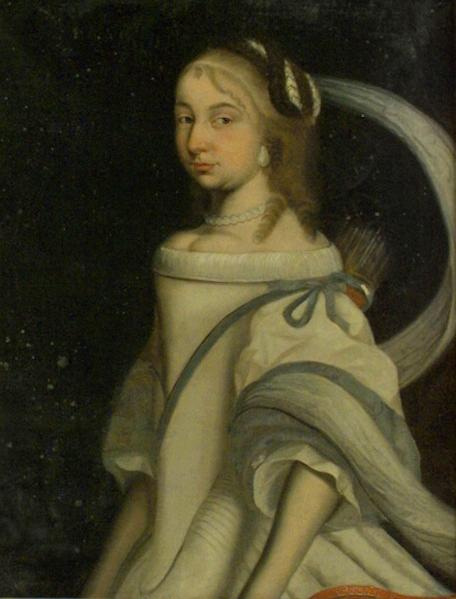 Princess Eleanor Catherine of Sweden and Hesse-Eschwege (1626-1692)